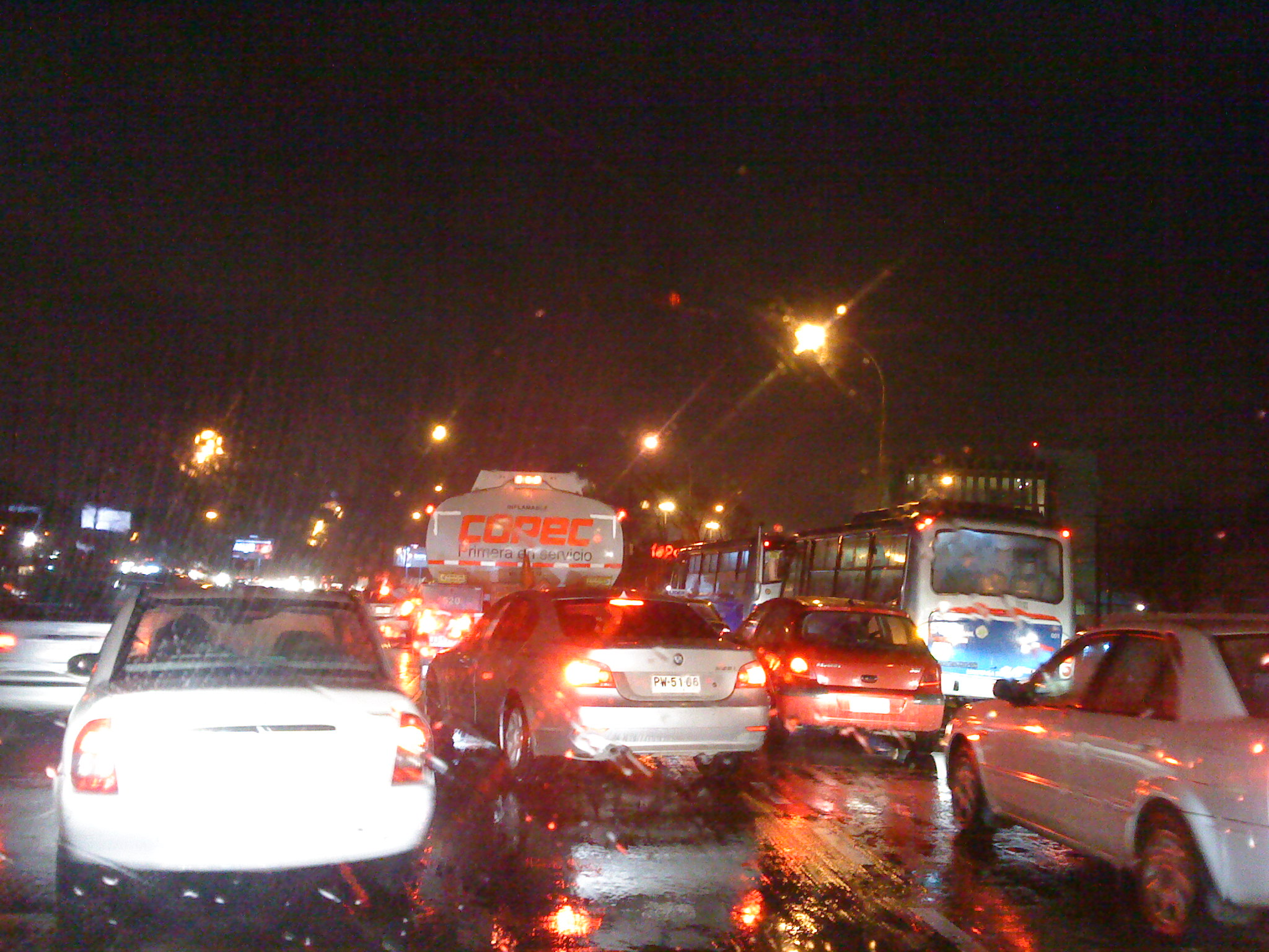 speedmotor Concepcion Talcahuano